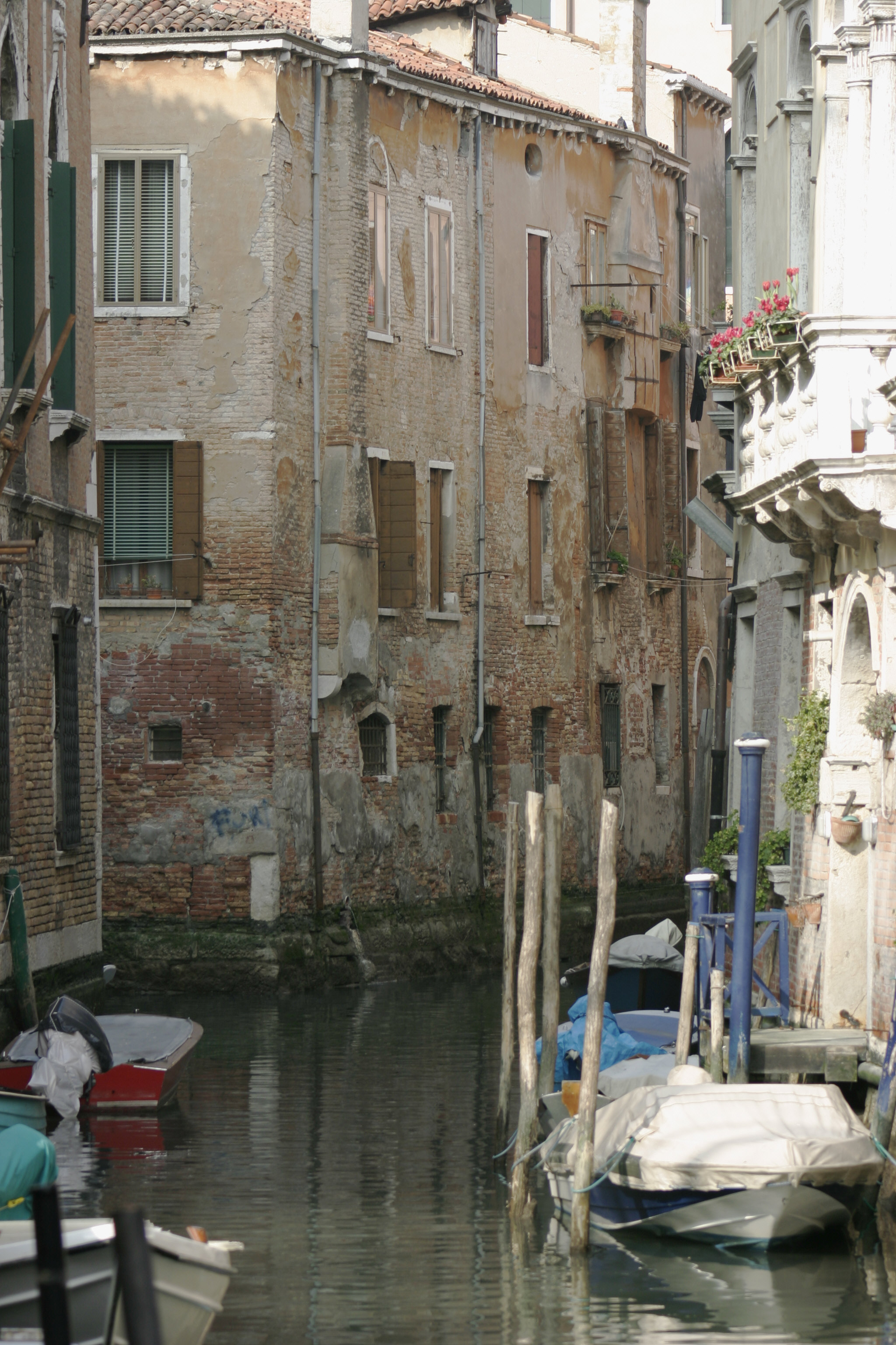 Venice – A canal